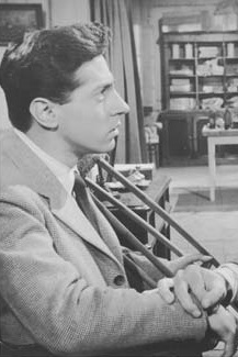 Jorge Morales- actor y locutor argentino